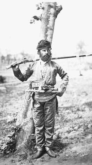 Caucasus: Gurian. Image description: Kavkaz. Guriits.